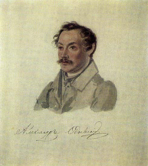 Alexander Ivanovich Odoevsky Акварель Ник. Бестужева (Петровский завод, I 1833)